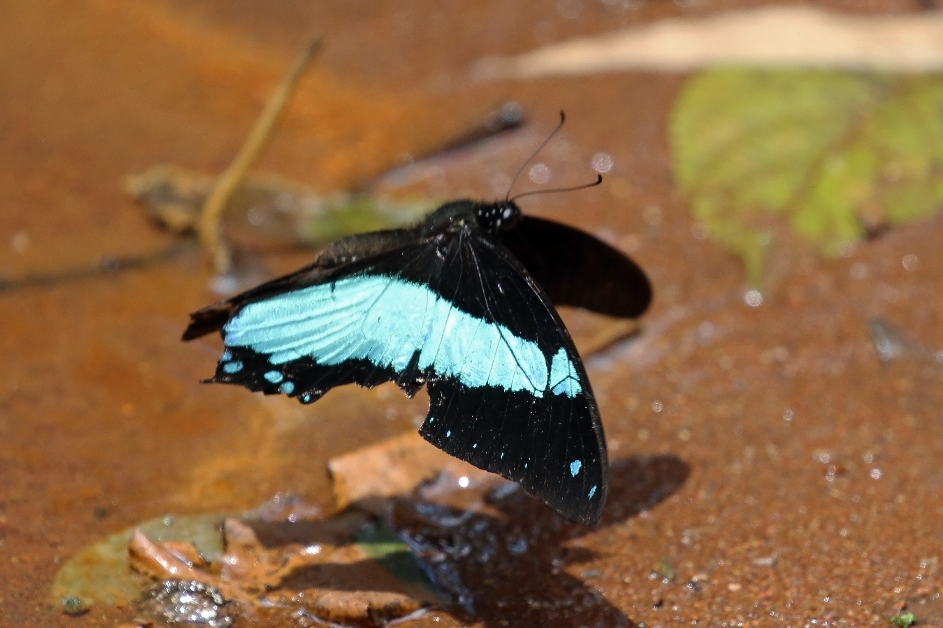 Broad green-banded swallowtail (Papilio chrapkowskii) in flight, Kakamega Forest, Kenya